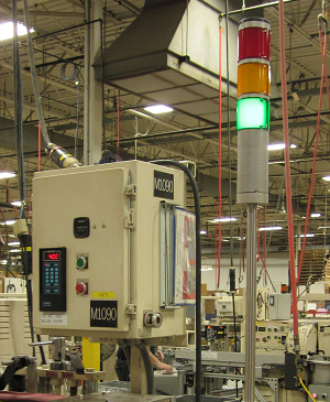 Stack Light used in automated production monitoring